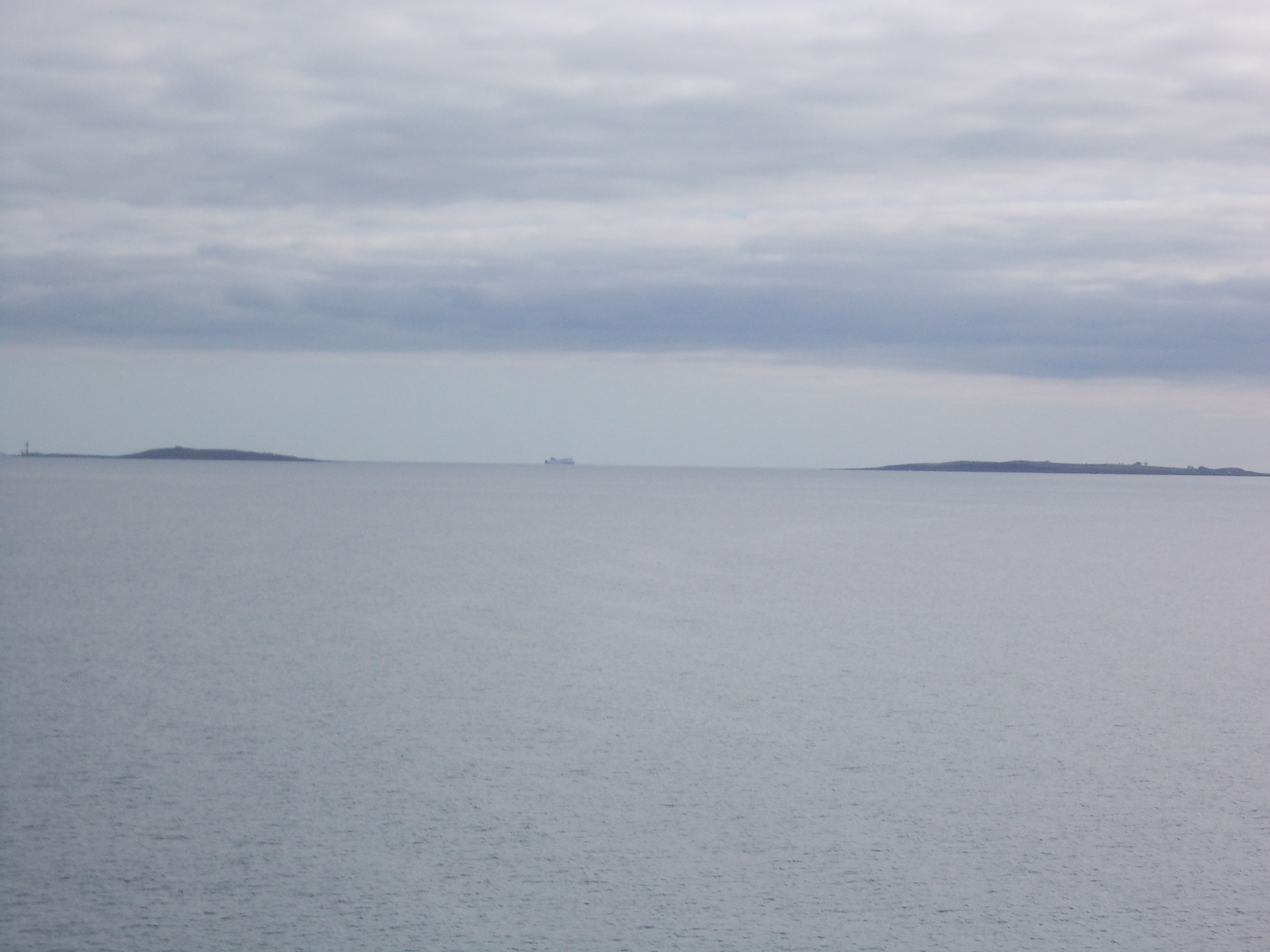 A view of Copeland Islands in the middle in back ground an Stena Line ferry going to England and the photo was taken on a Stena Line ferry heading to Scotland